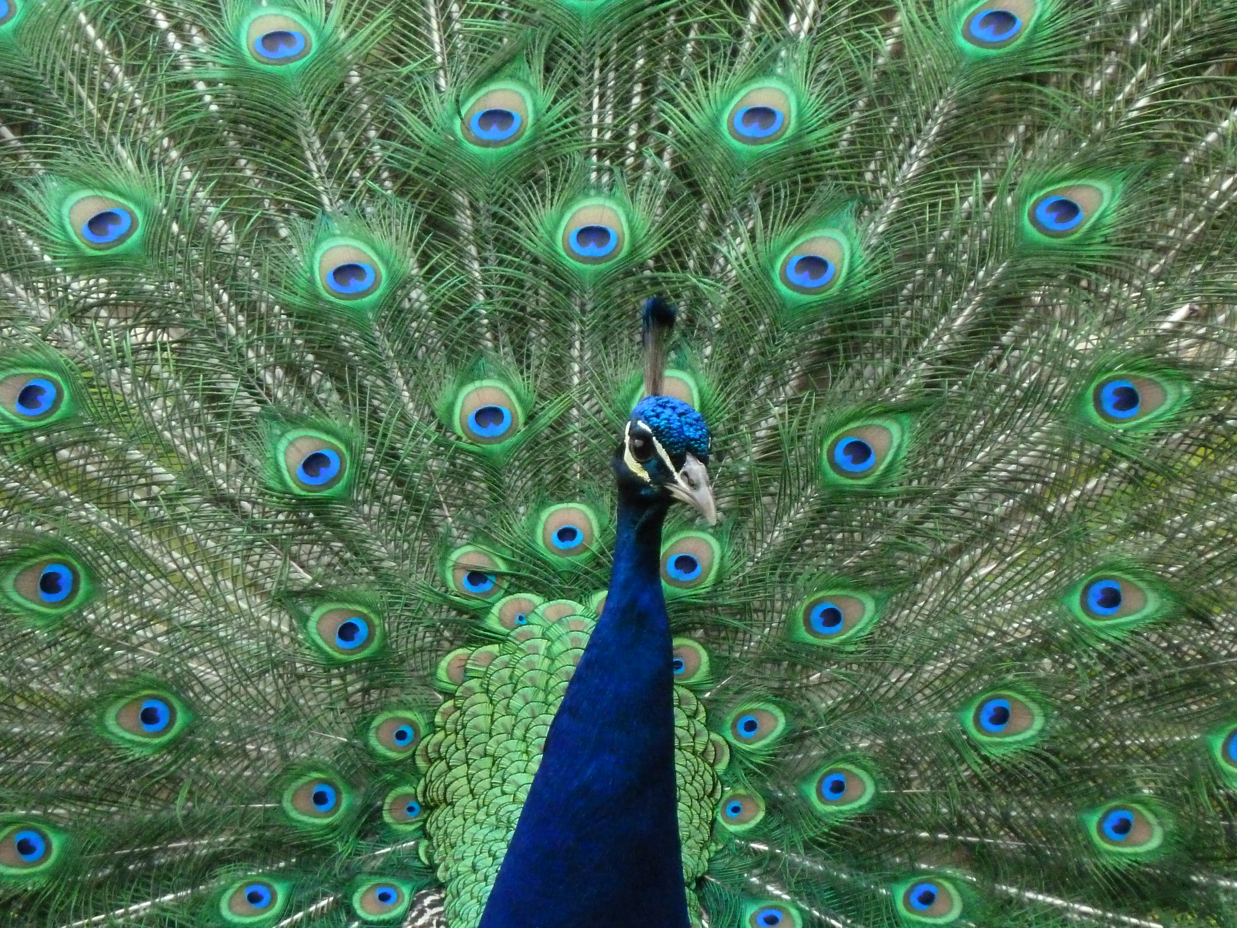 Peacock at Warwick Castle, in full display